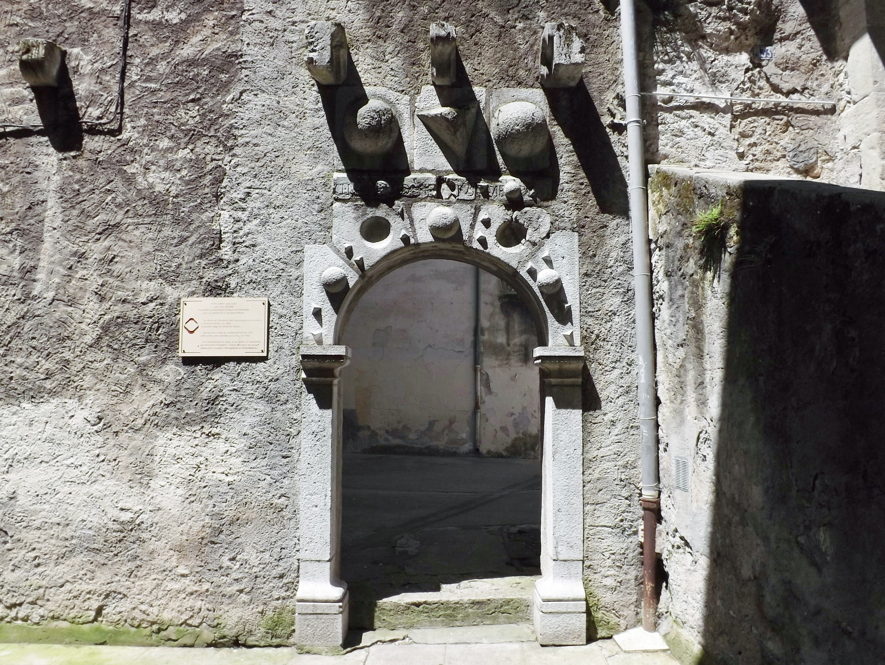 Sight, during the few minutes of sunlight it knows at noon near the summer solstice, of the Porte de Celse Morin door, built by Celse Morin in the 16th century, in Chambéry, Savoie, France.